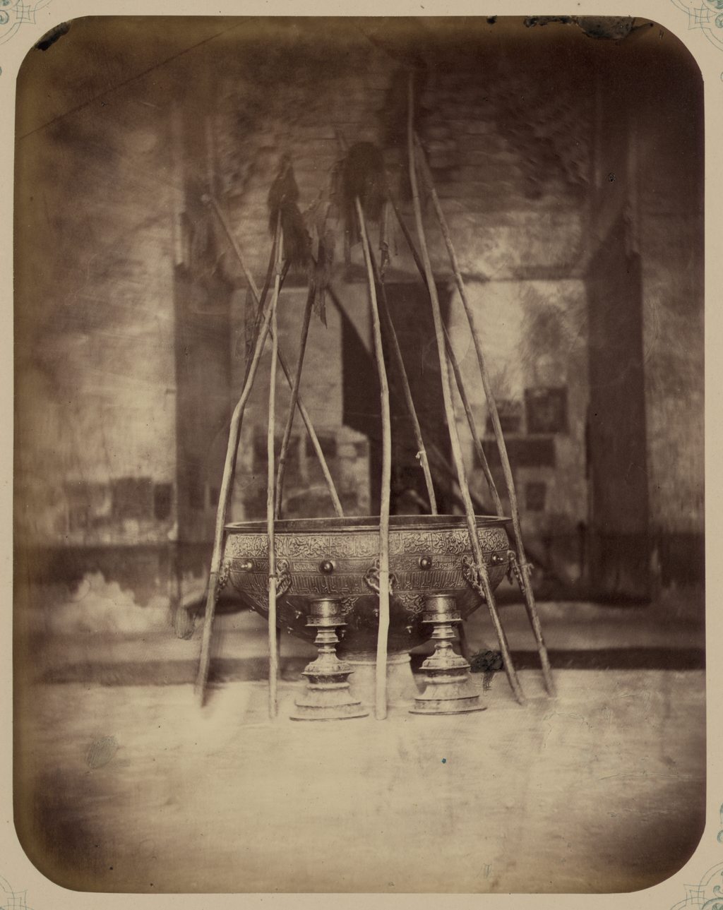 This photograph of the interior of the mausoleum of Khodzha Ahmed Iassavi in Yasi (present-day Turkestan, Kazakhstan) is from the archeological part of Turkestan Album. The six-volume photographic survey was produced in 1871-72 under the patronage of General Konstantin P. von Kaufman, the first governor-general (1867-82) of Turkestan, as the Russian Empire’s Central Asian territories were called. Yasi is associated with the Sufi mystic, Khodzha Ahmed Iassavi (1103-66), whose great reputation led Timur (Tamerlane) to construct a memorial shrine (khanaka) at his grave site. Built in 1396-98, the mausoleum displays features of Timurid architecture, then at its height in Samarkand. This view shows the interior of the main structure, with a large bronze ritual water basin elaborately decorated with botanical figures and Perso-Arabic inscriptions. In the foreground are two massive bronze holders articulated in ascending circles. The height of the basin, which rests on a masonry stand, is about one meter. Leaning against the basin are wooden poles similar to those placed at burial markers. Dimly visible in the background are the brick walls of the mausoleum, which has a cruciform plan. At the center is a niche that appears to culminate in a stalactite vault. Cauldrons; I͡Asavi, Akhmed, died 1166; Photographic surveys; Religious articles; Sepulchral monuments; Tombs